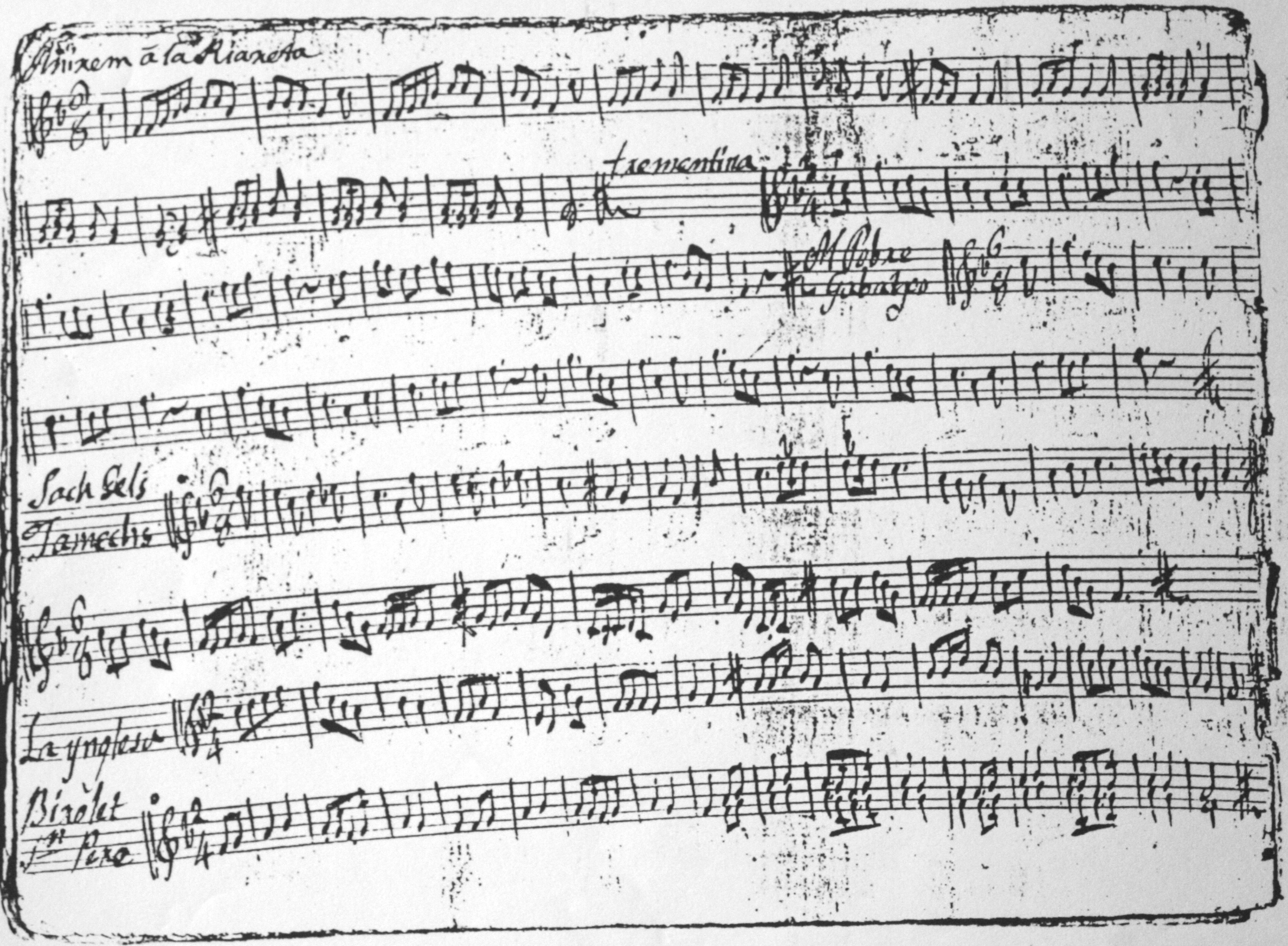 Melodia de sac de gemecs i cançó tradicional catalana en un manuscrit de ca. 1822